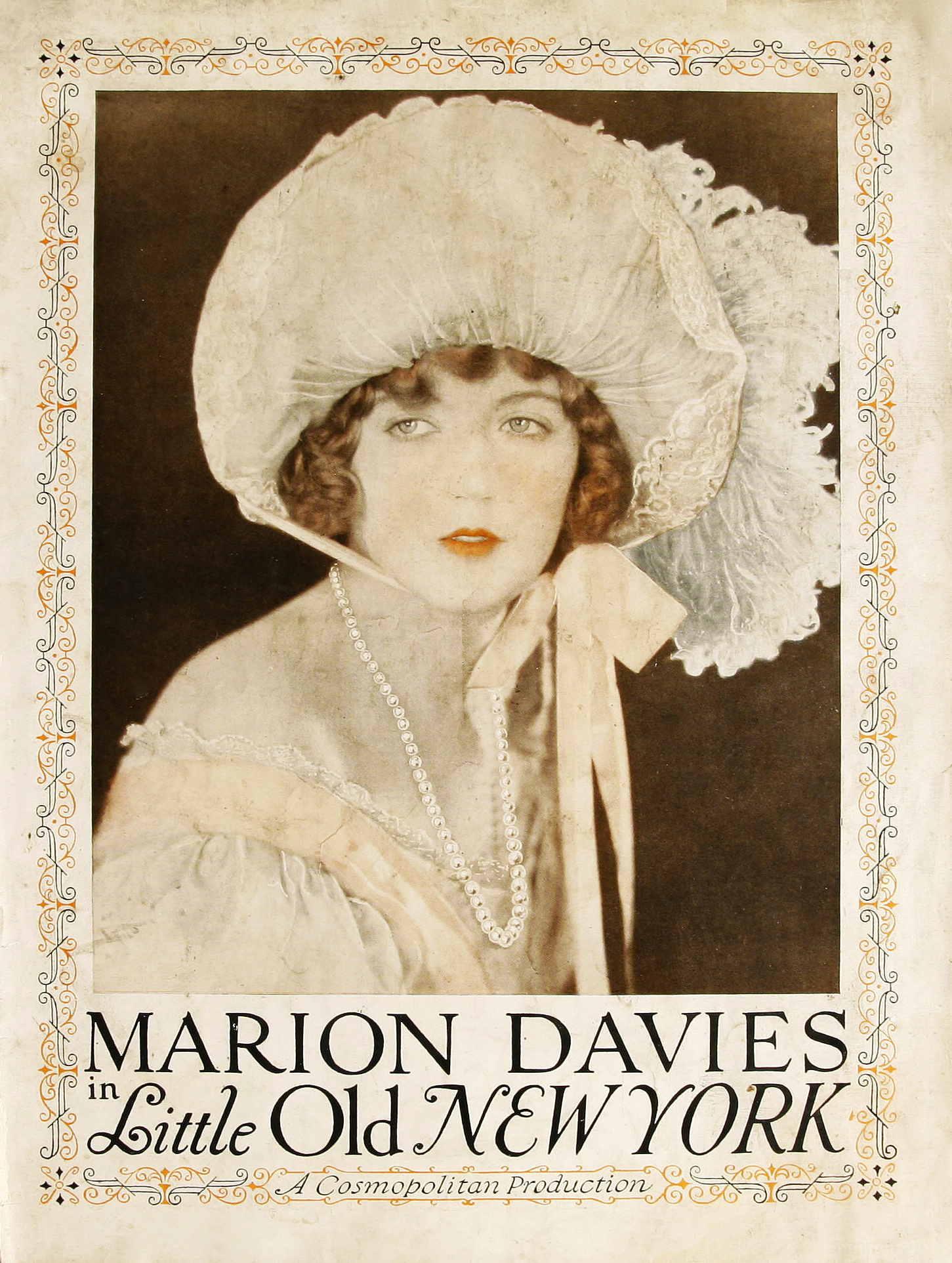 Poster for the American drama film Little Old New York (1923).